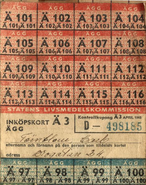 A swedish Ration stamp used under WWII.